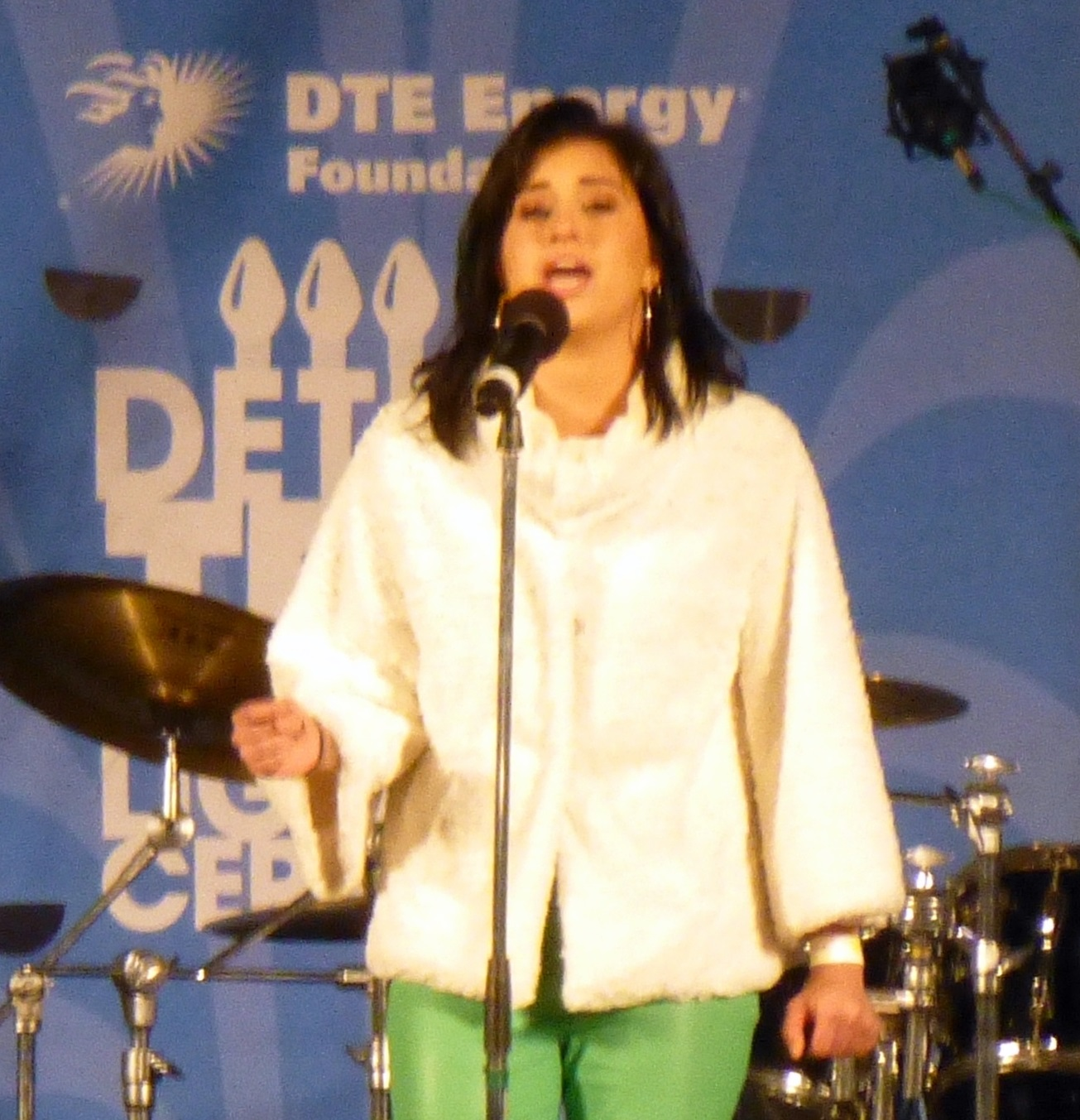 Jena Irene Asciutto performing at 2014 Detroit Christmas Tree Lighting Ceremony at Campus Martius Park